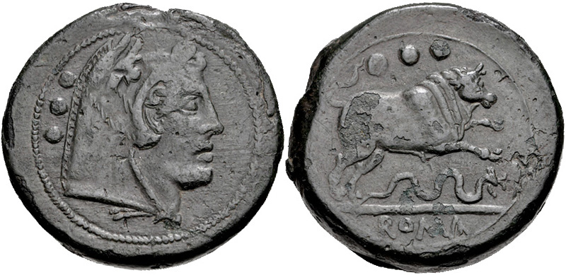 Rome Anonymous. Circa 217-215 BC. Æ Quadrans (35mm, 37.66 g, 2h). Semi-Libral standard. Rome mint. Head of Hercules right, wearing boar-skin headdress; ••• (mark of value) behind Bull charging right; ••• (mark of value) above, snake right below; ROMA in exergue. Good VF, dark green patina which is chipped in areas on the reverse. Property of Martin Armstrong acquired for Princeton Economics.